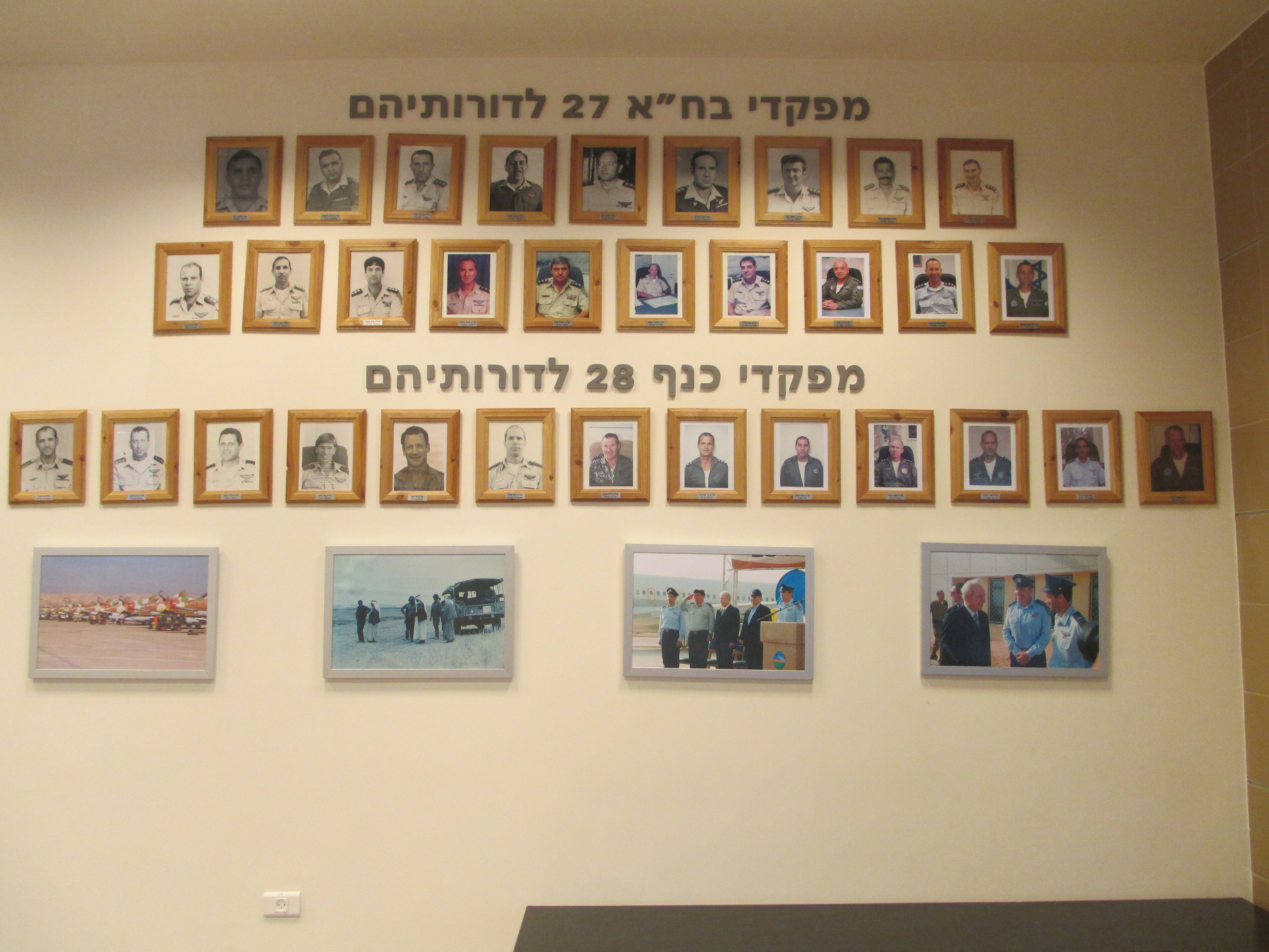 Nevatim Airbase